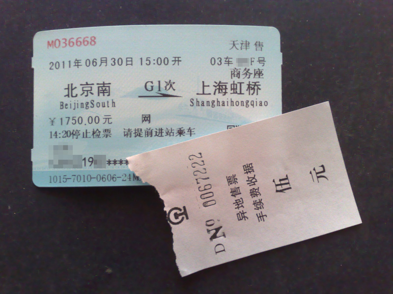 Train ticket of the first train on Beijing–Shanghai High-Speed Railway, G1, Beijing South to Shanghai Hongqiao, depart at 2011-06-30 15:00